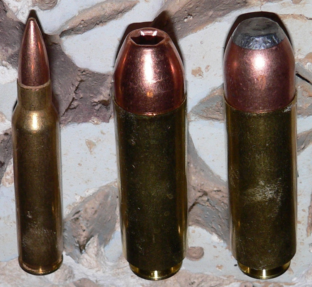 Photo by Rob Berg, Cartridges left to right: (1) .223/5.56, (2) 334gr .50 Beowulf, (3) 400gr .50 Beowulf Please link use of photo to no requirements on use at Wikipedia.